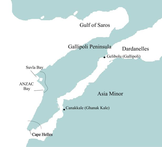 map of battle of gallipoli. Created by User:Jeronimo and released under GFDL.